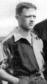 Swedish footballer Gustaf Bergström after Swedens first ever international match. Against Norway, 12th of July 1908.